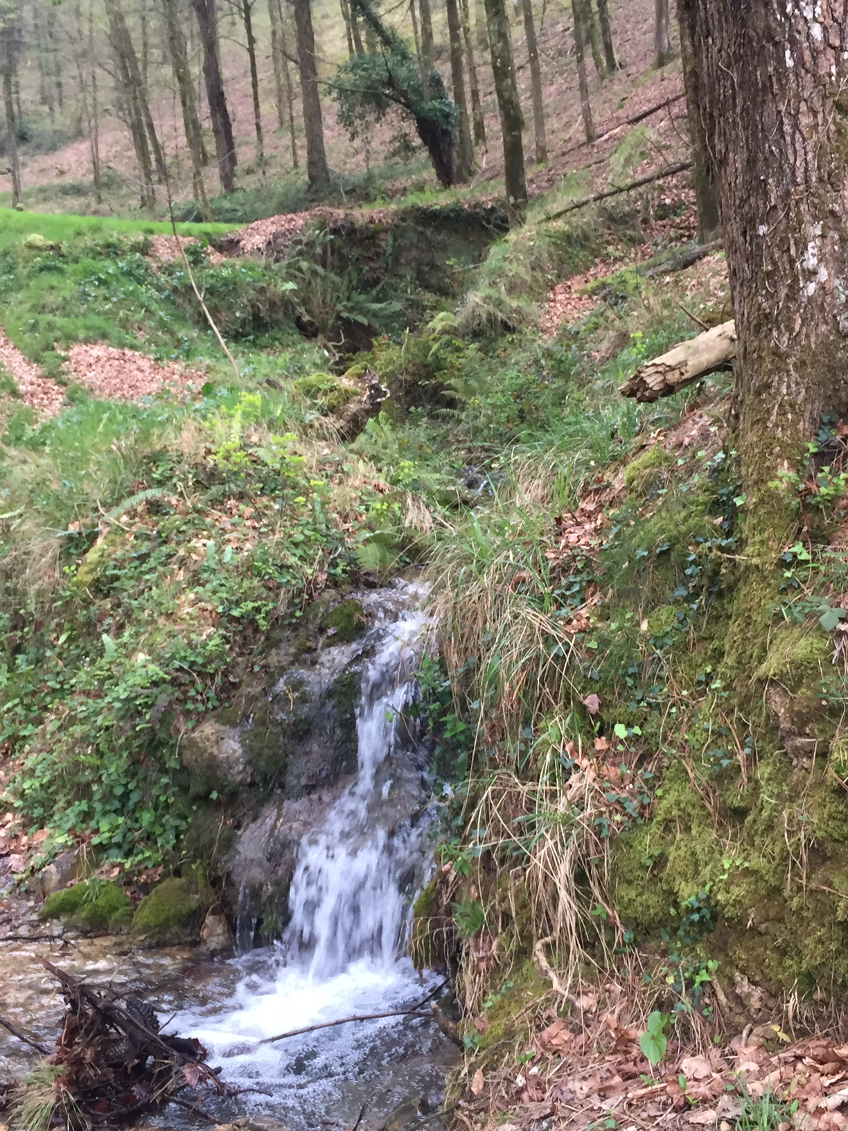 Troska erreka creek